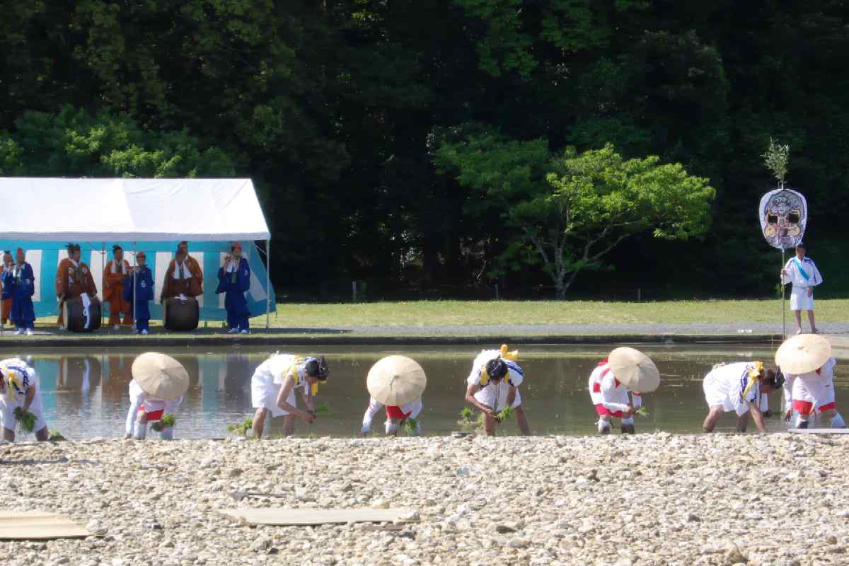 Shinden otaue hajime, rice planting at Jingu shinden